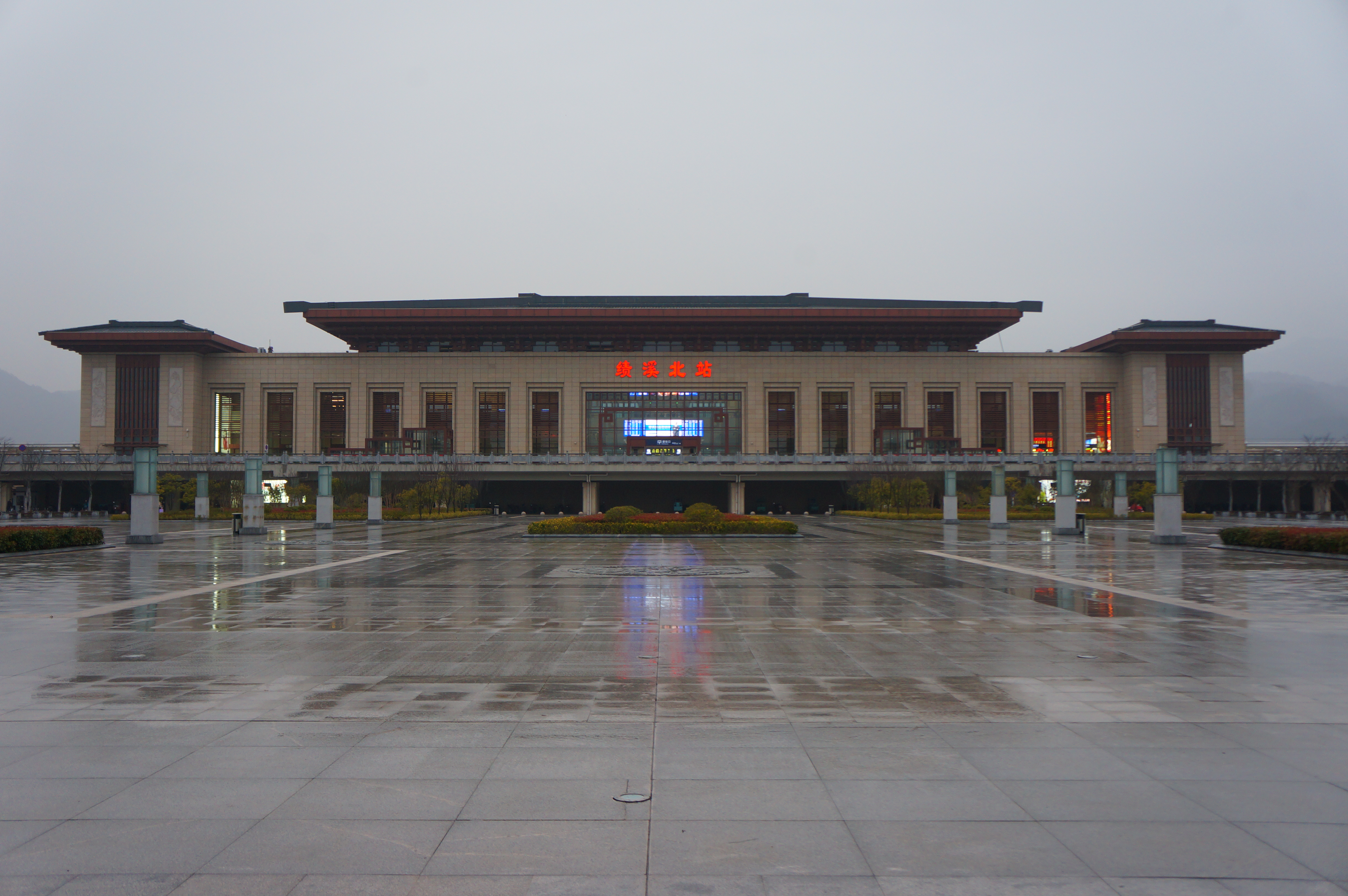 The size of the county-level station building is larger than many city-level stations...